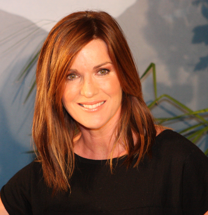 Actor’s Vanessa Hudgens (Suckerpunch and High School Musical) and Josh Hutcherson (Hunger Games and Journey to the Centre of the Earth) will walk the red carpet at the Sydney premiere of their new film JOURNEY 2: THE MYSTERIOUS ISLAND at Event Cinemas George Street on Tuesday the 17th of January.